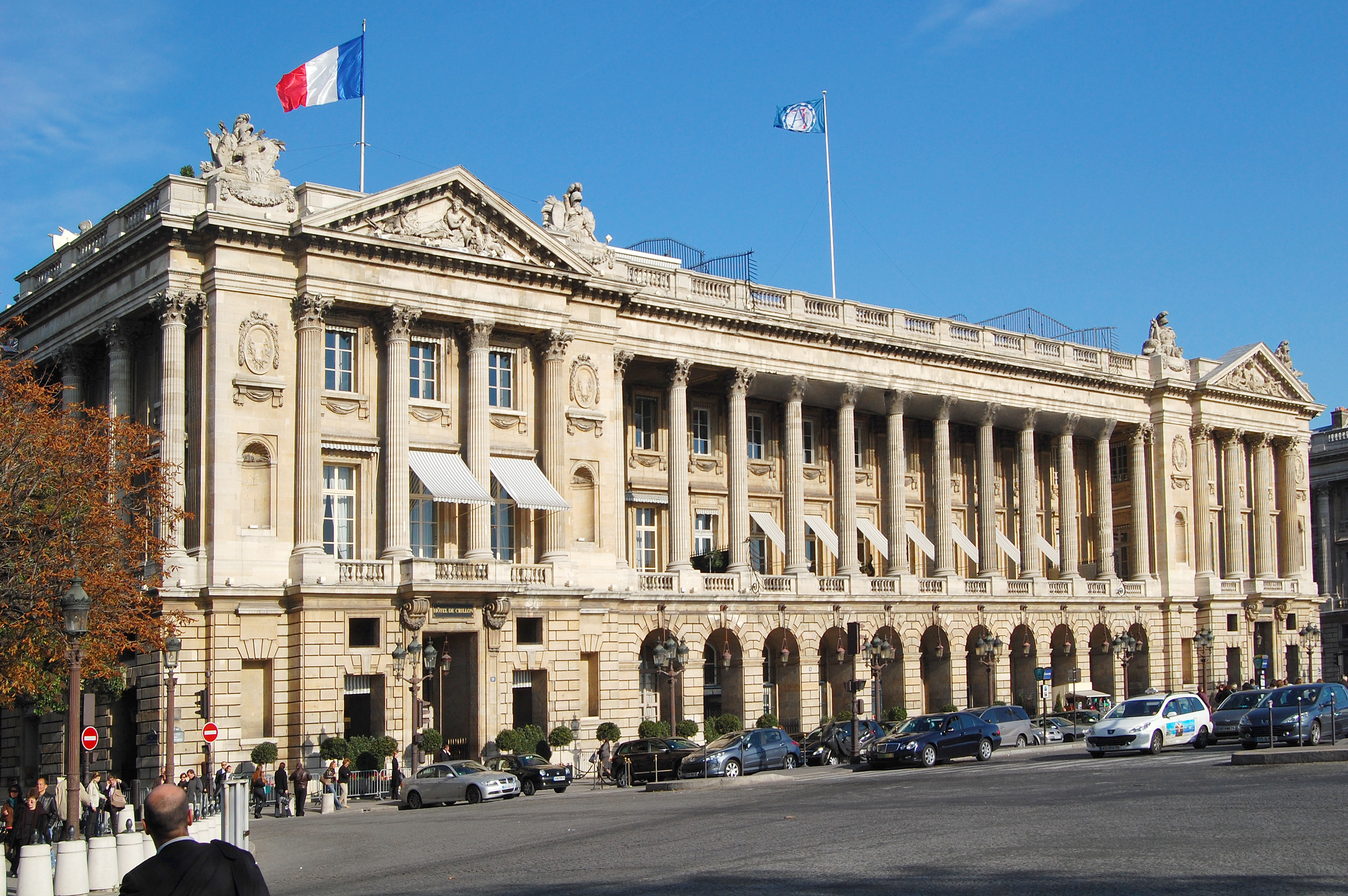 "Hotel Crillon", "Place de la Concorde", Paris, France